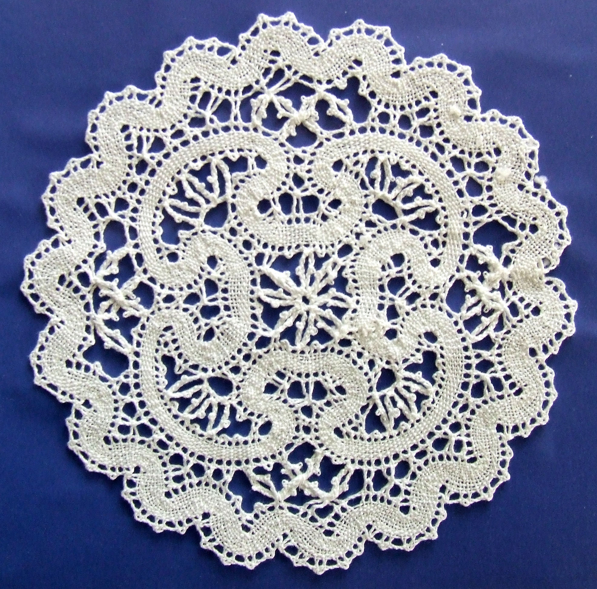 An Idria lace. Private property of I.Z.